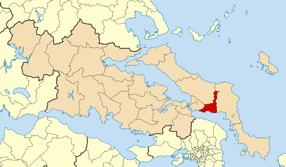 Locator map for Eretria municipality in Greek region Central Greece (2011)